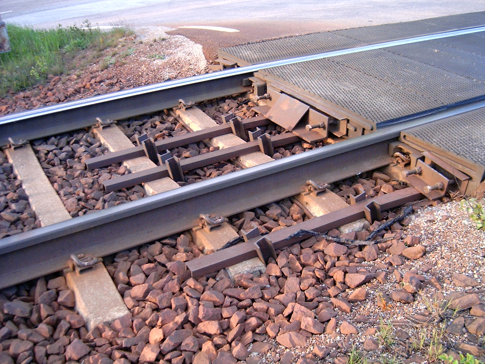 Level crossing. The rail road has concrete sleepers with Pandrol fastening.